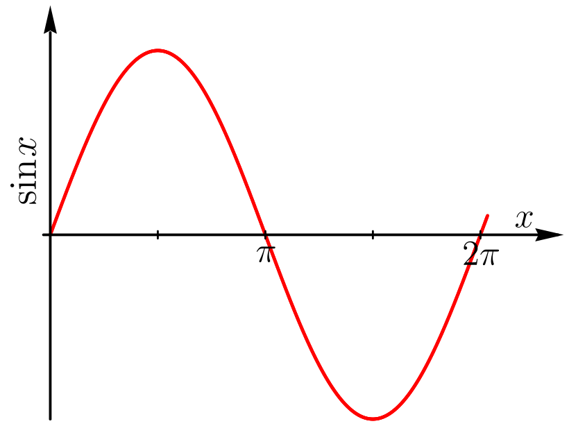 One period sinus wave